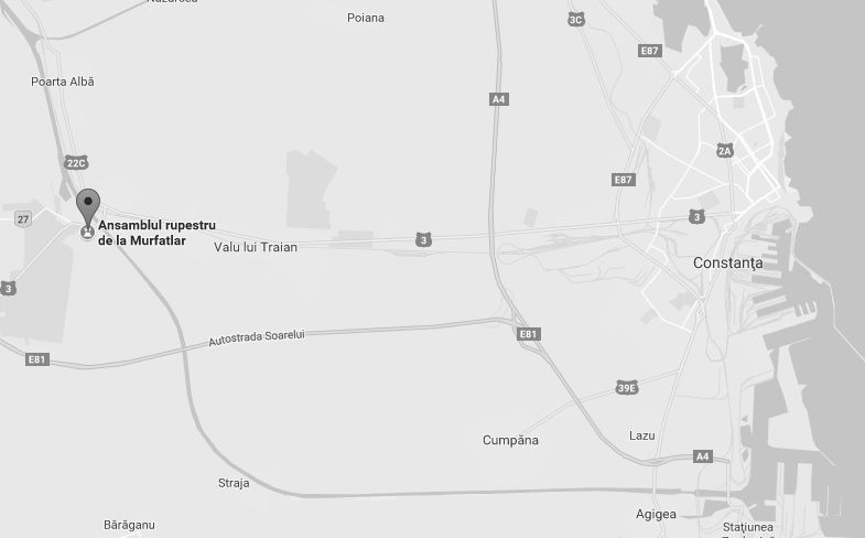 Place of the Basarabi-Murfatlar churches